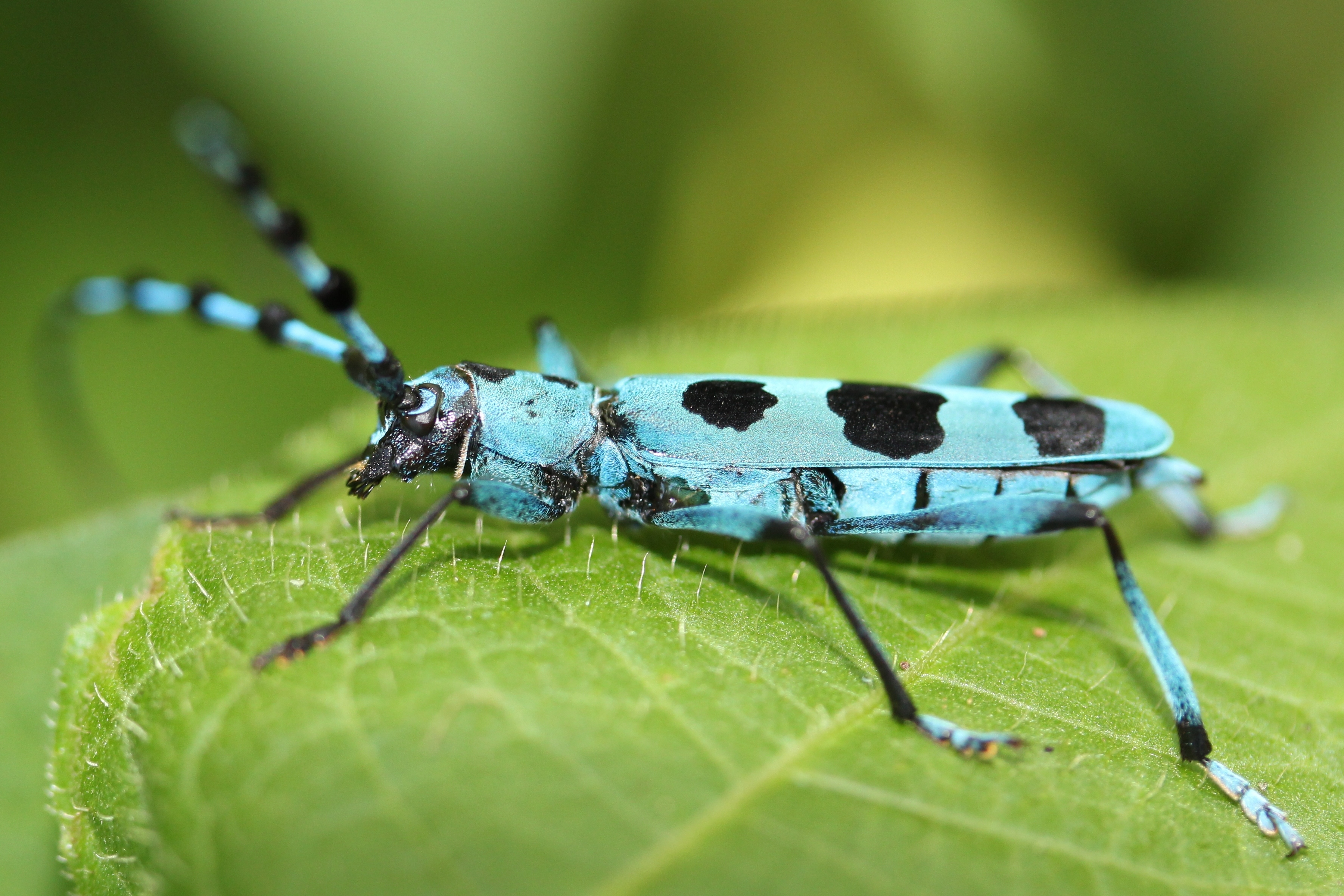 Rosalia batesi on leaf in Fukui pref., Japan.